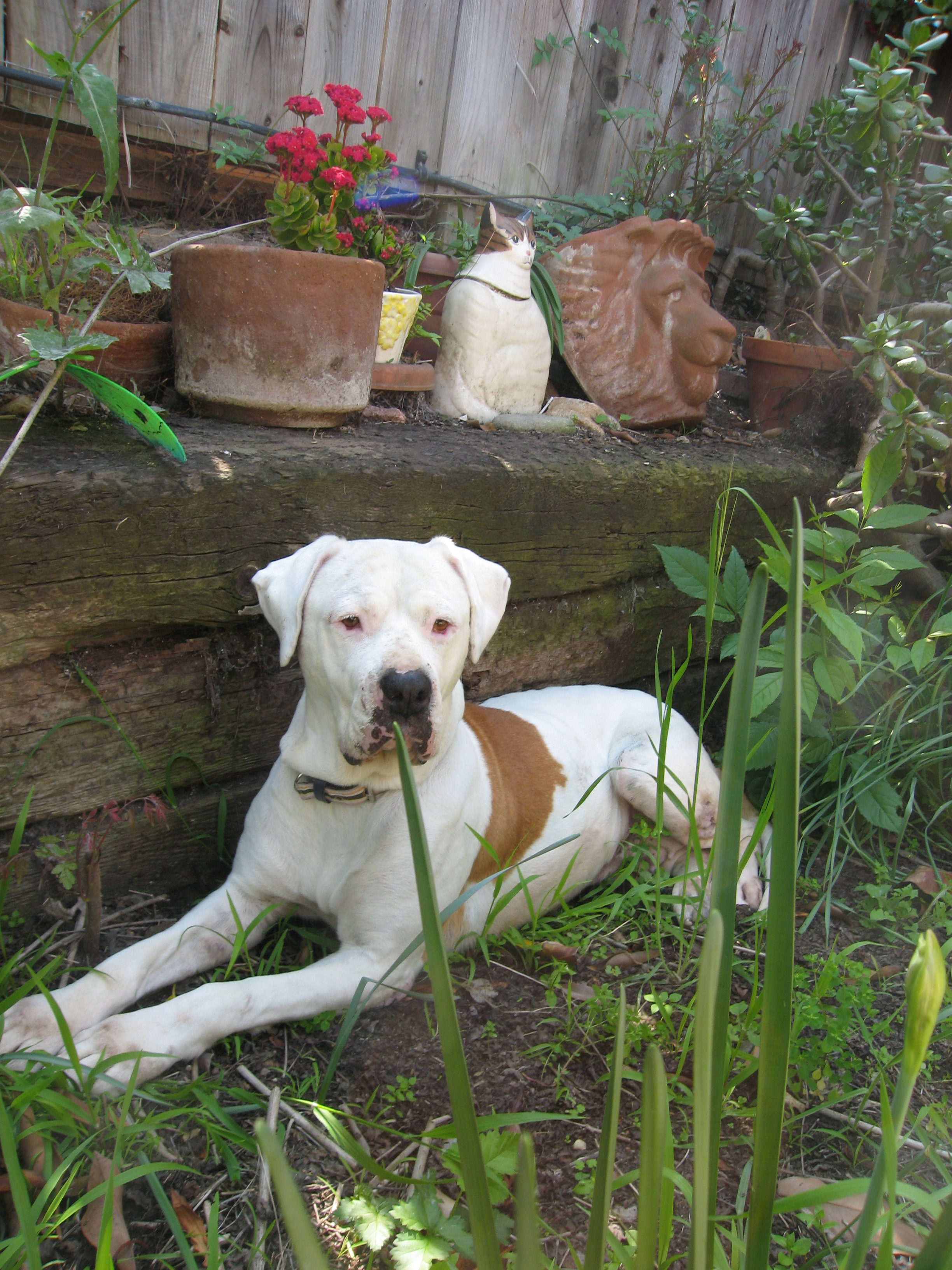 Four-year-old female American Bulldog